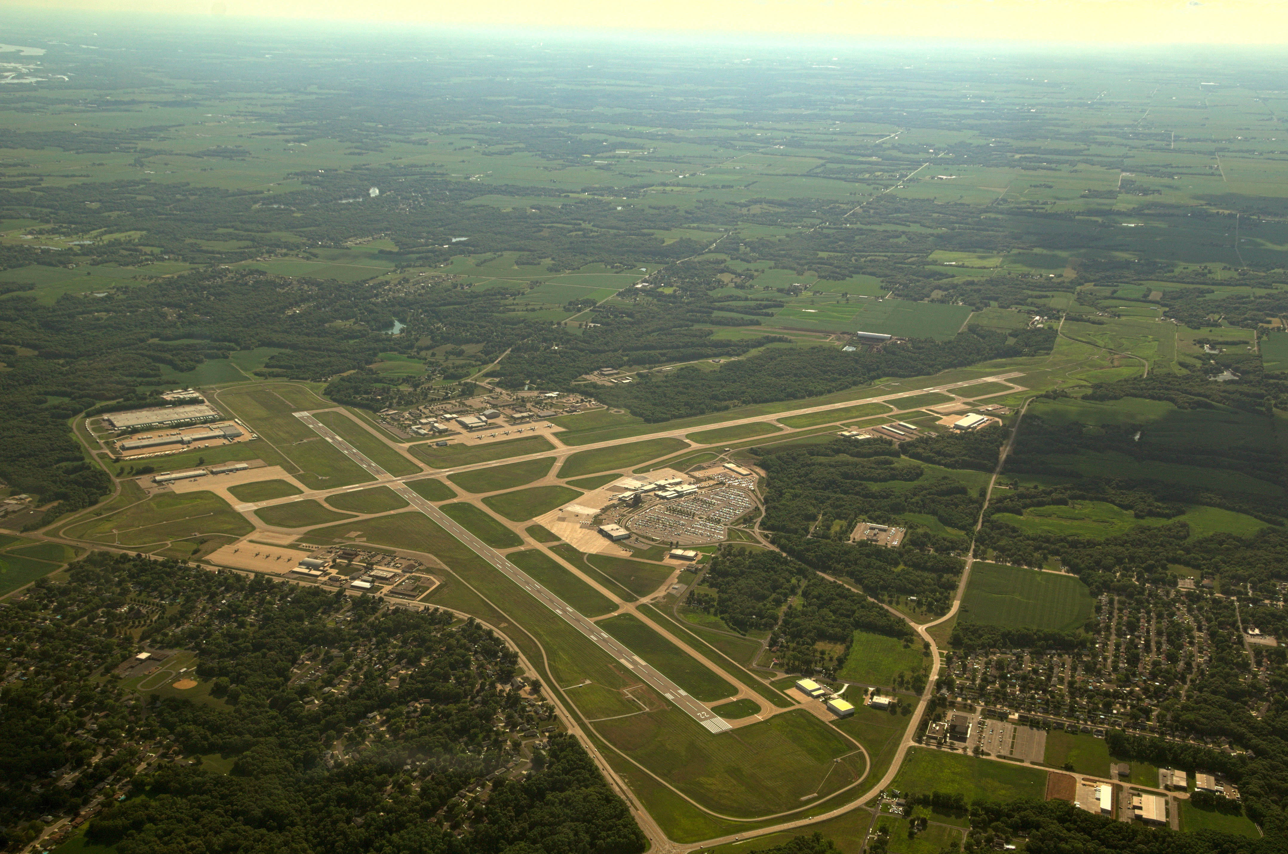 Aerial Photograph of Peoria Illinois International Airport taken Aug 12, 2017 by Kelly Trimble from 7500 ft msl